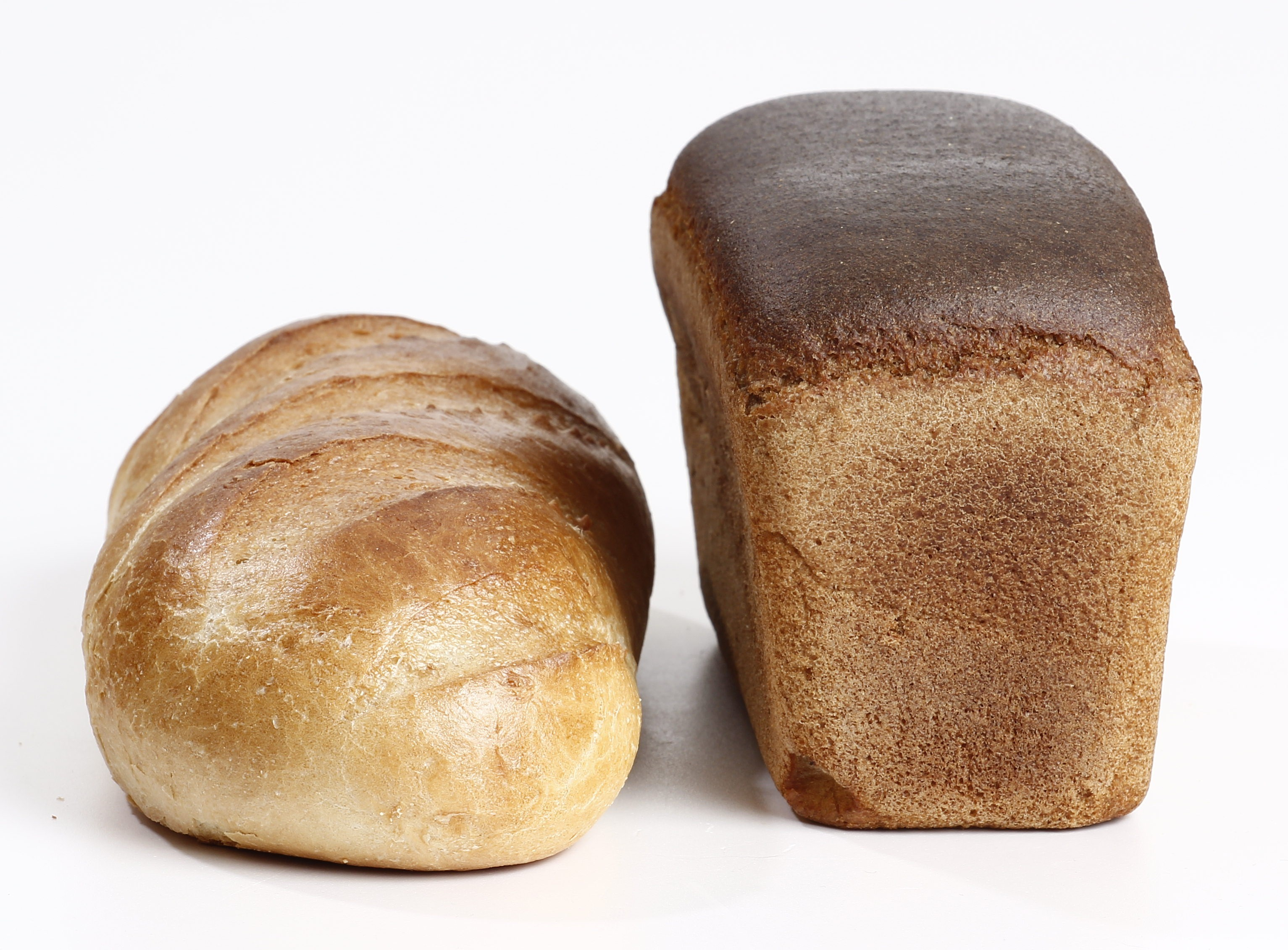 Breads of Russia